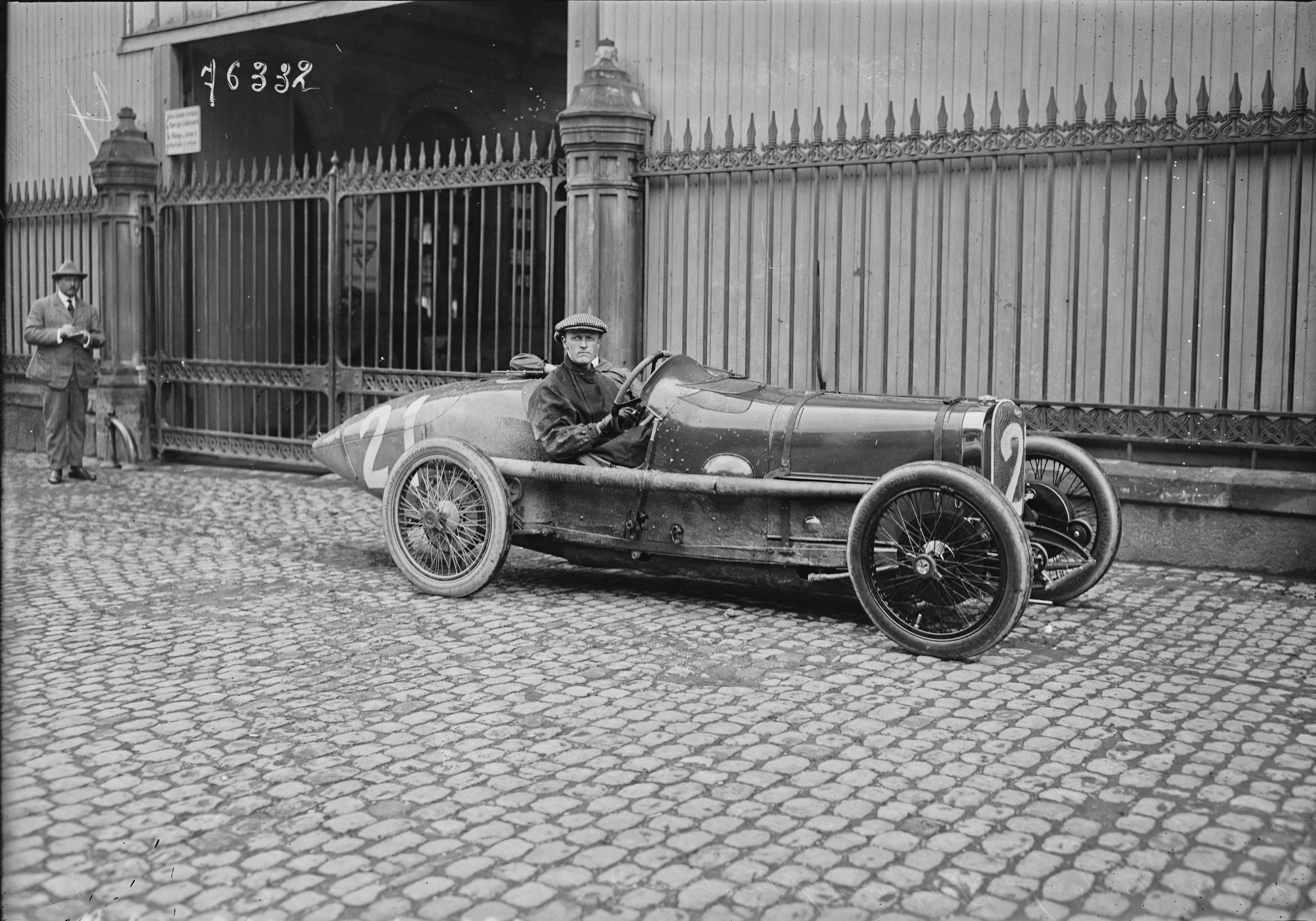 Henry Segrave at the 1922 French Grand Prix